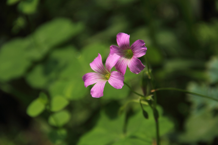 Family: Oxalidaceae Genus: Oxalis Origin: Tropical area of South America Our hometown is the tropical area of South America but we live around the world nowadays.